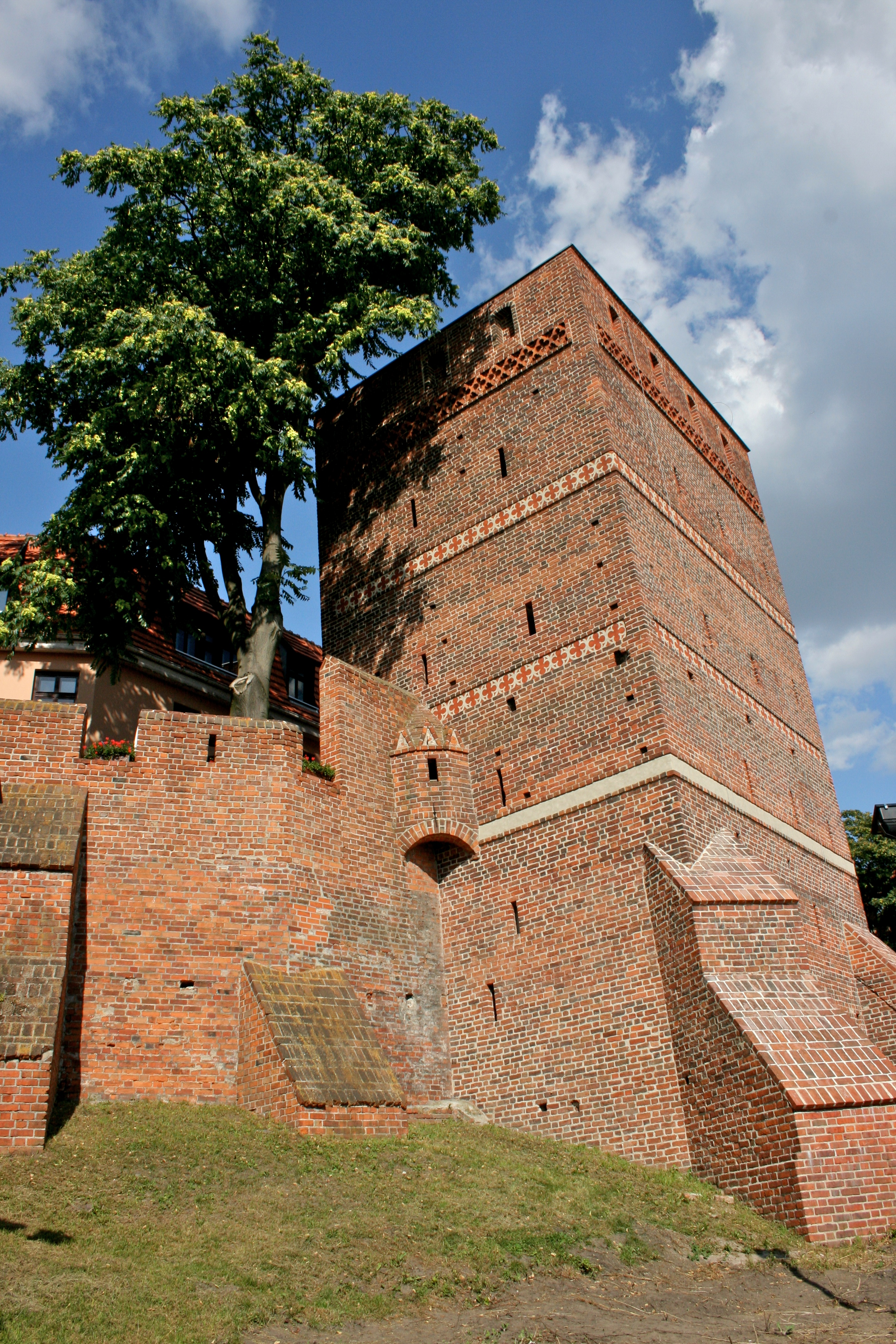 Toruń, Krzywa Wieża (Leaning Tower)